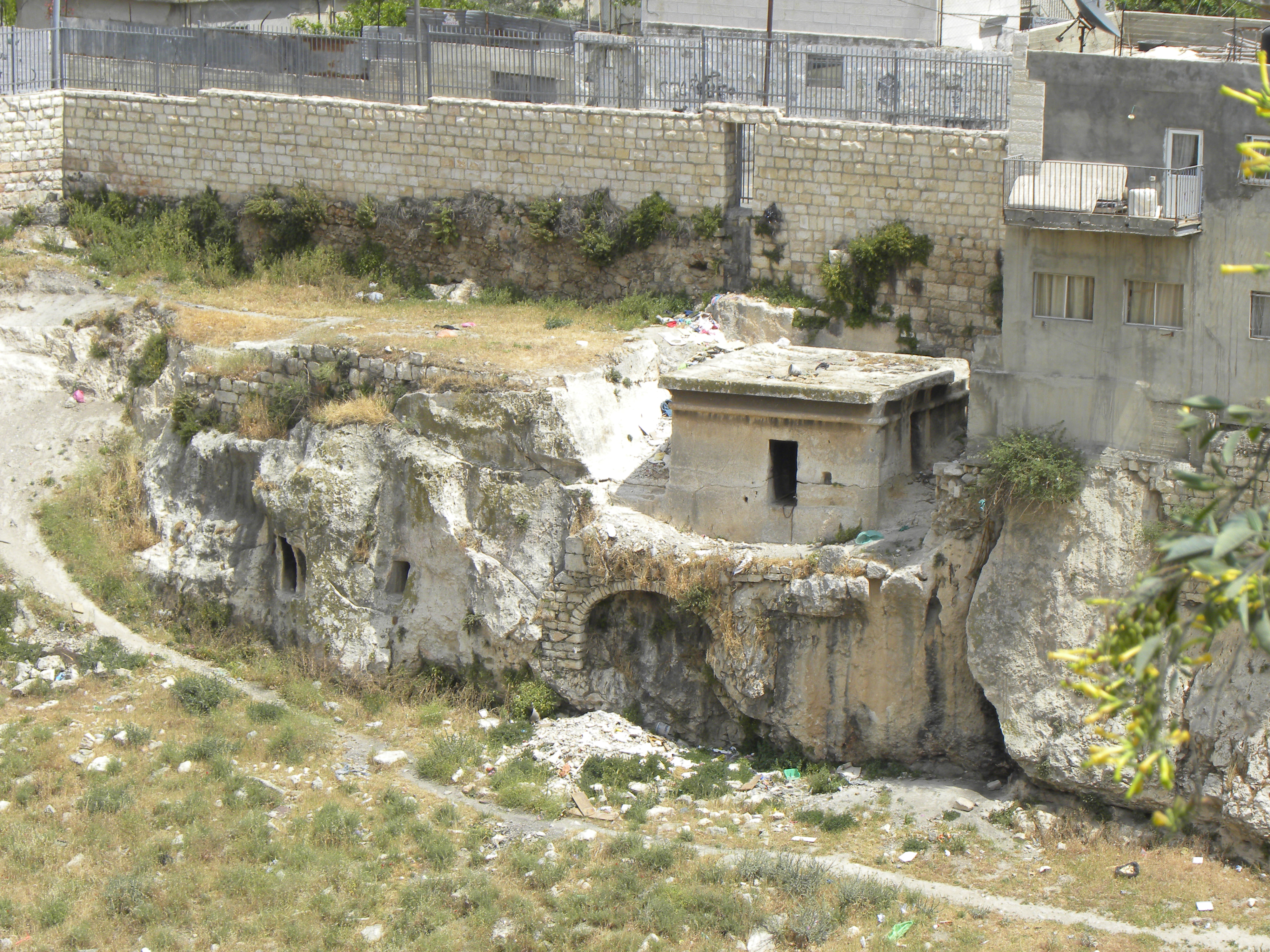 Ancient rock-cut tombs on the lower slope of the Mount of Olives. The rectangular openings to the tombs have been enlarged, probably when the tombs were used as dwellings by Christian monks.